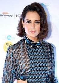 Kangana Ranaut at Aamir Khan's conversation with Sir Ian McKellen in 2016